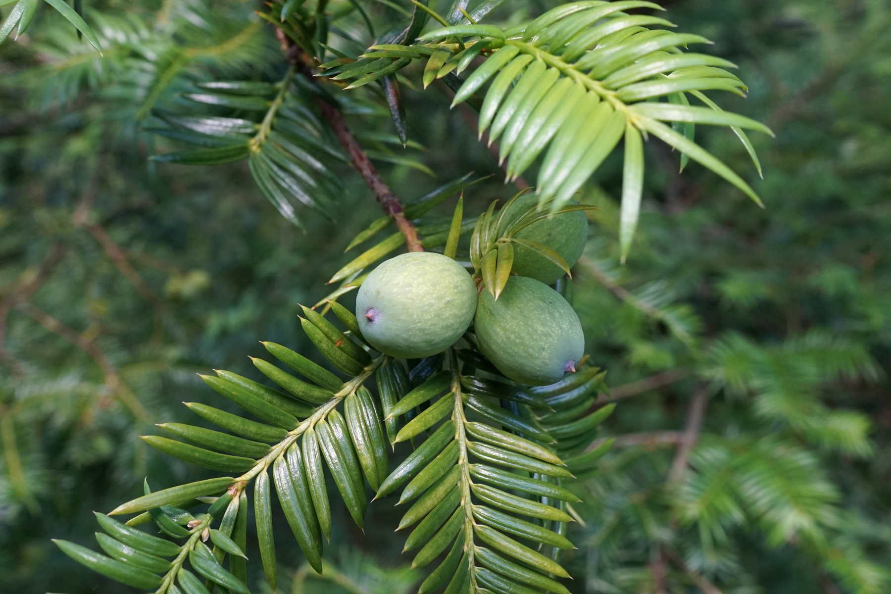 Torreya nucifera var. spaerica